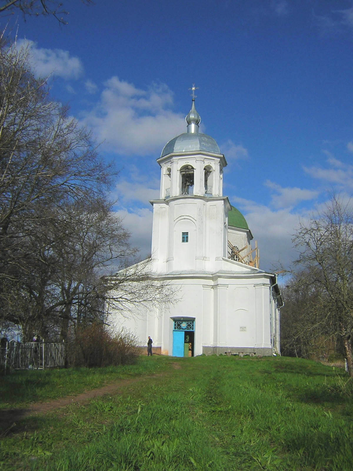 Uspenia churche (Dormition of the Theotokos) in Korostyn village, Shimsky district, Novgorod oblast, Russia